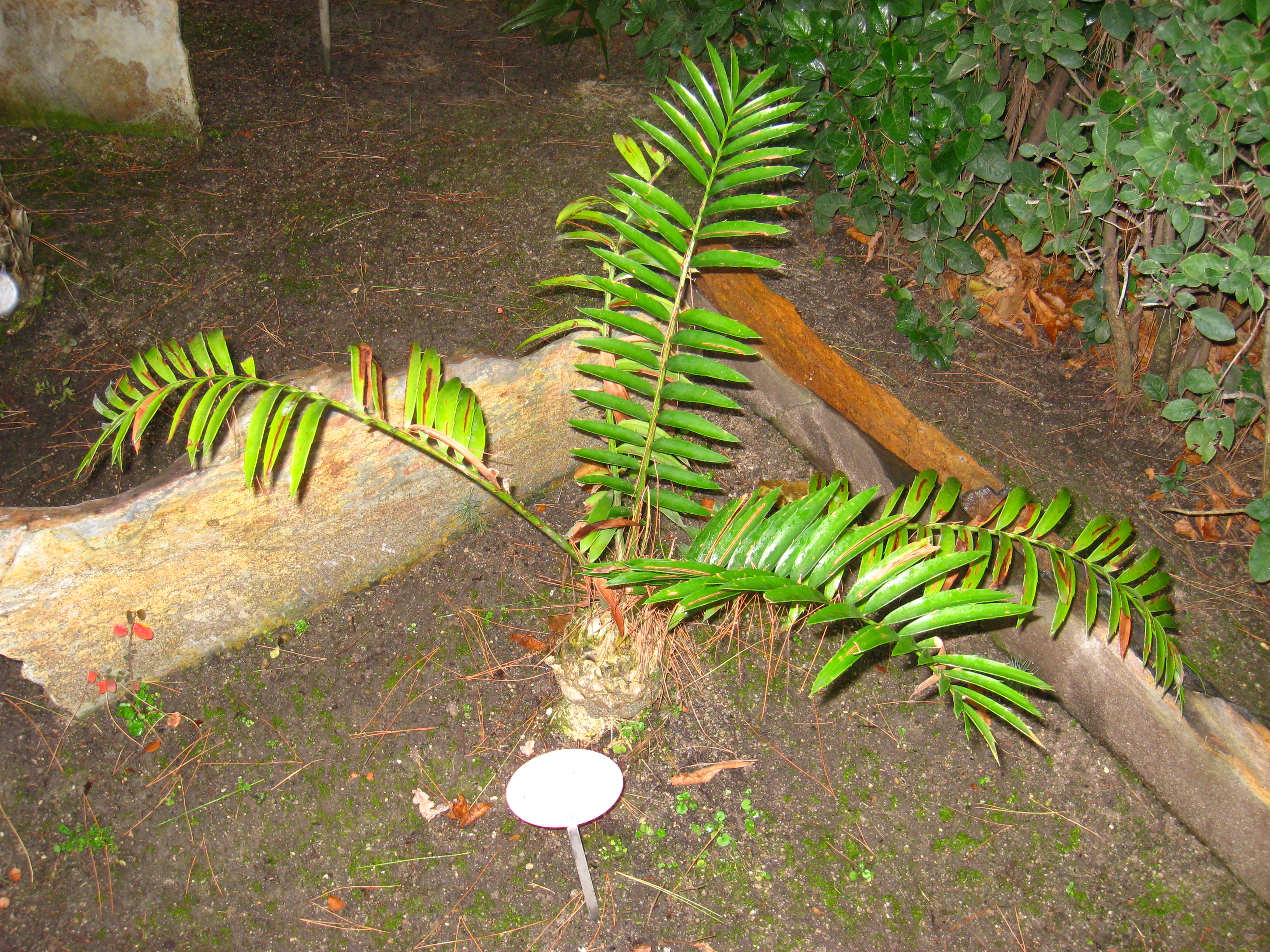 Encephalartos altensteinii - Royal Botanical Garden, Madrid, Spain. I took this photograph.